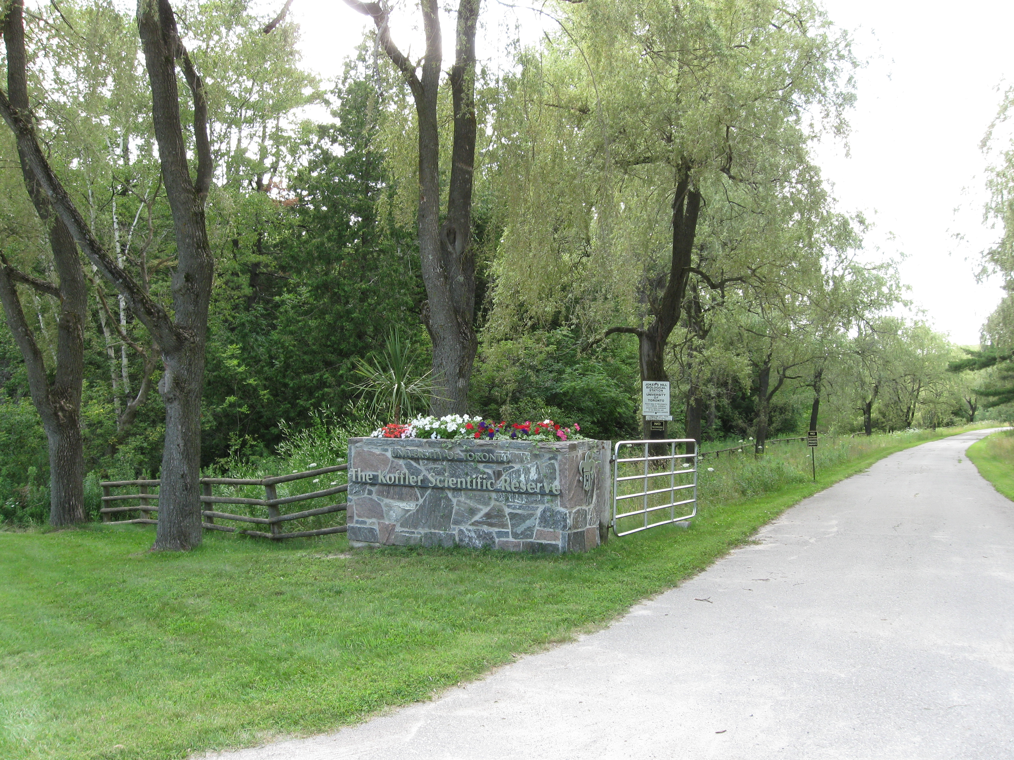 Entrance to the Koffler Scientific Reserve / Joker's Hill Biological Station off 19th Sideroad, west of Dufferin.